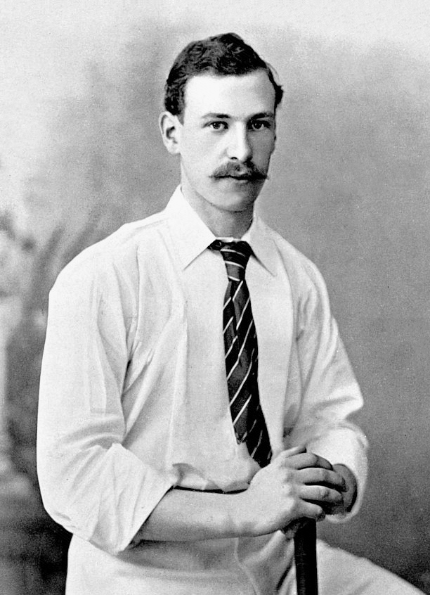 Sport, Cricket, Circa 1895, The Rt,Hon Sir Frank Stanley Jackson (known as Francis Stanley Jackson), He played for Yorkshire (1890-1907) and England (1893-1905)